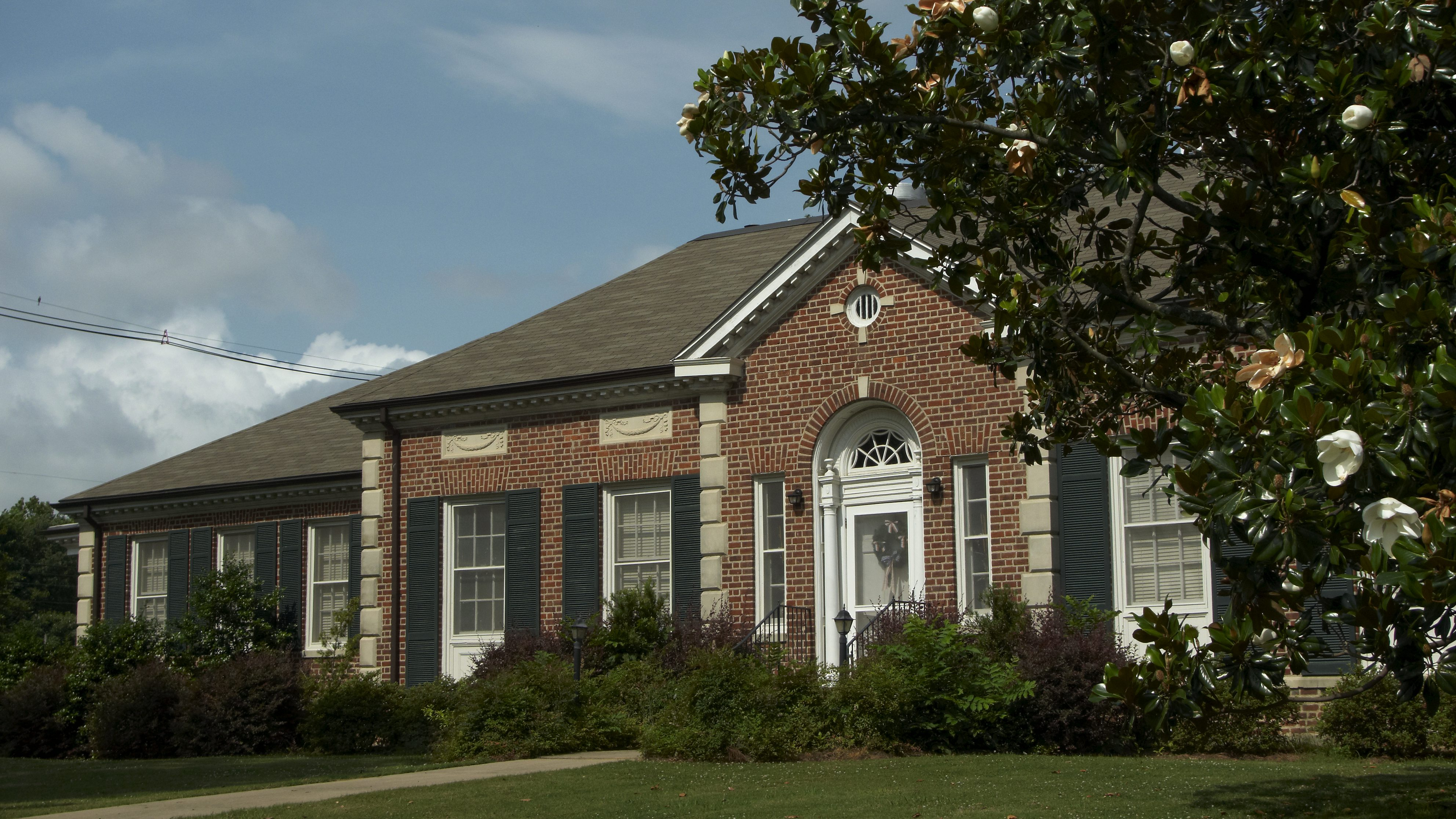 corner of Woodrow Wilson and North State streets near the University of Mississippi Medical Center